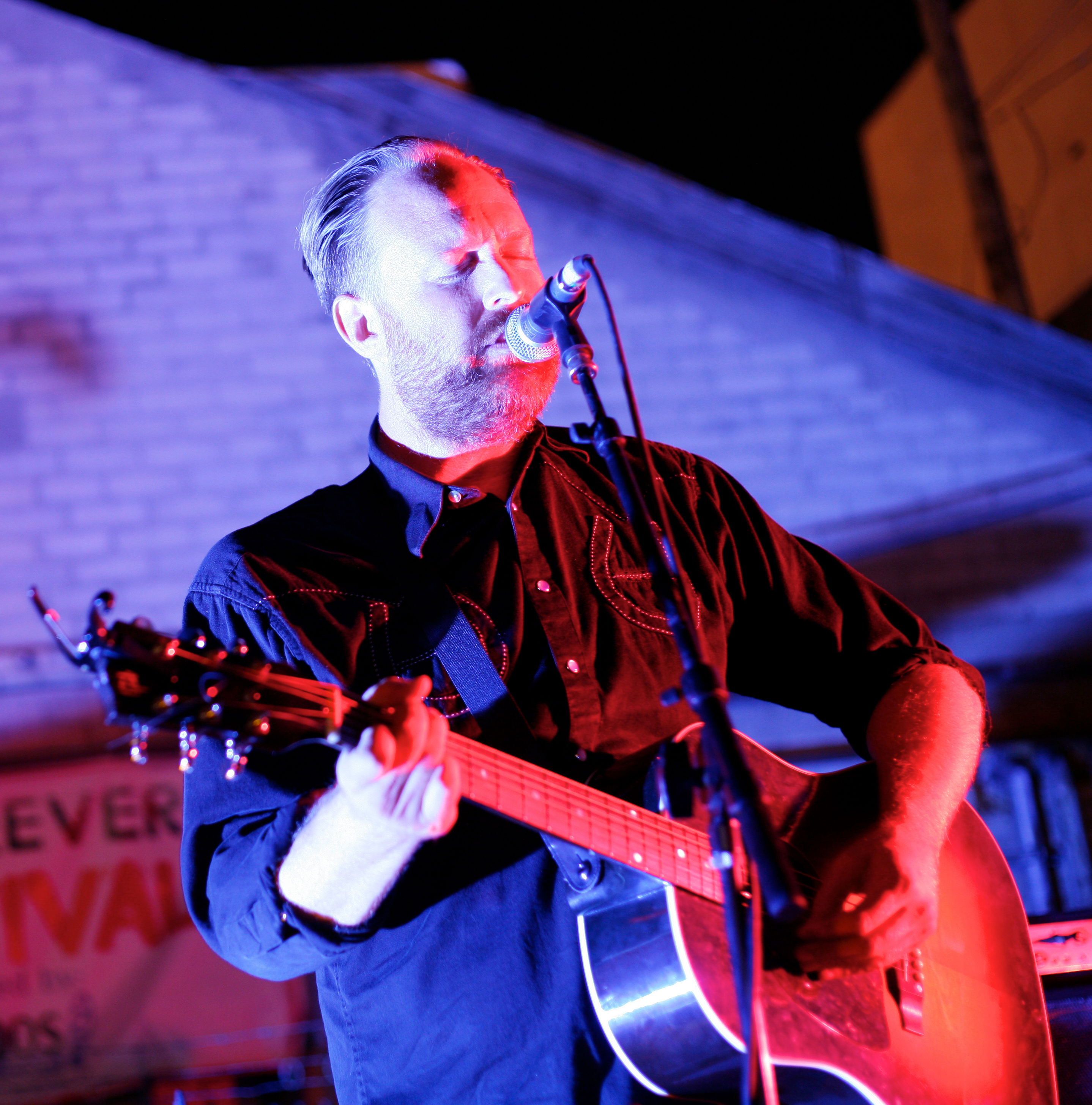 Ryan Pardey performs live in Las Vegas